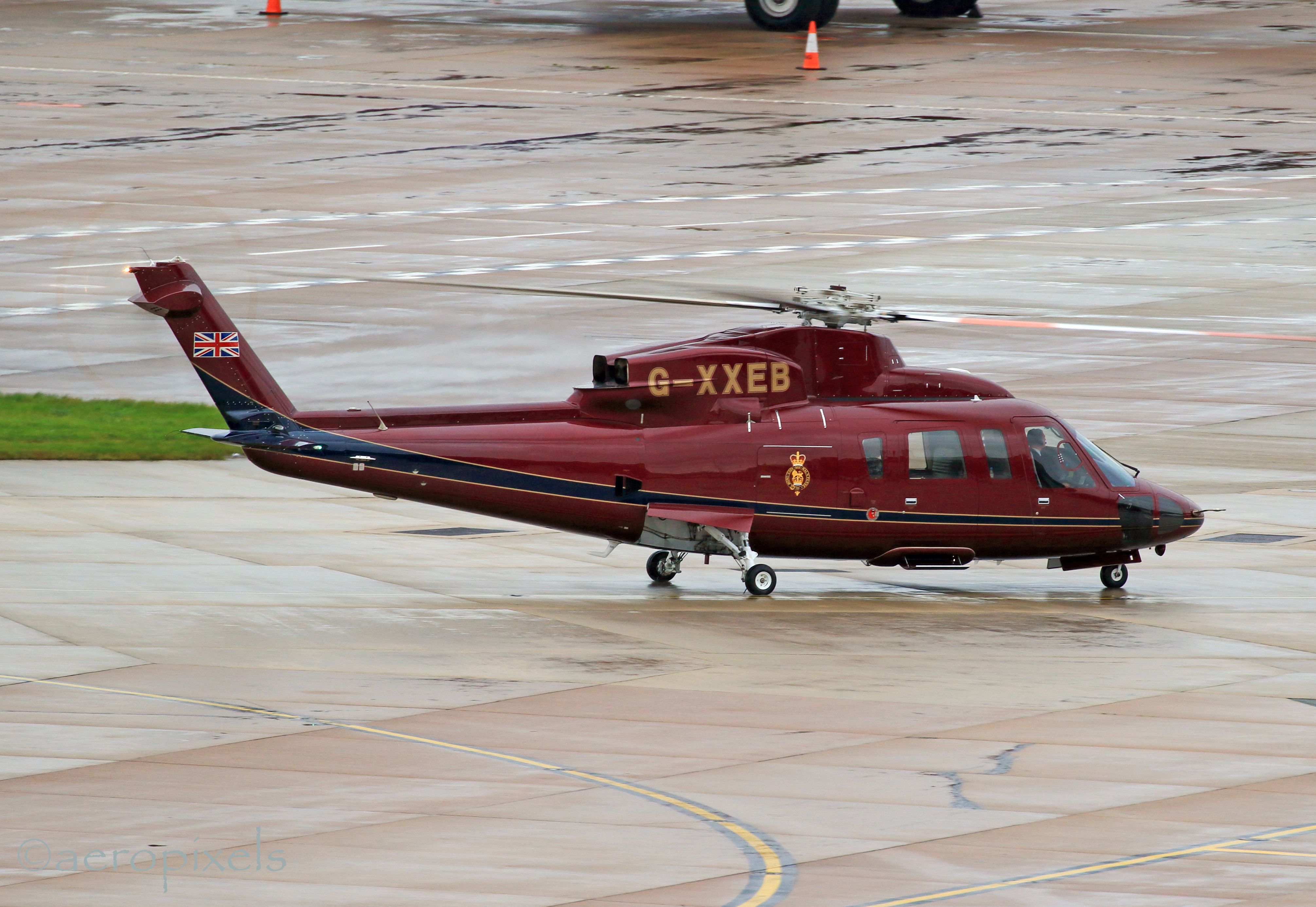 The Queens Helicopter Flight S-76 ♦ G-XXEB